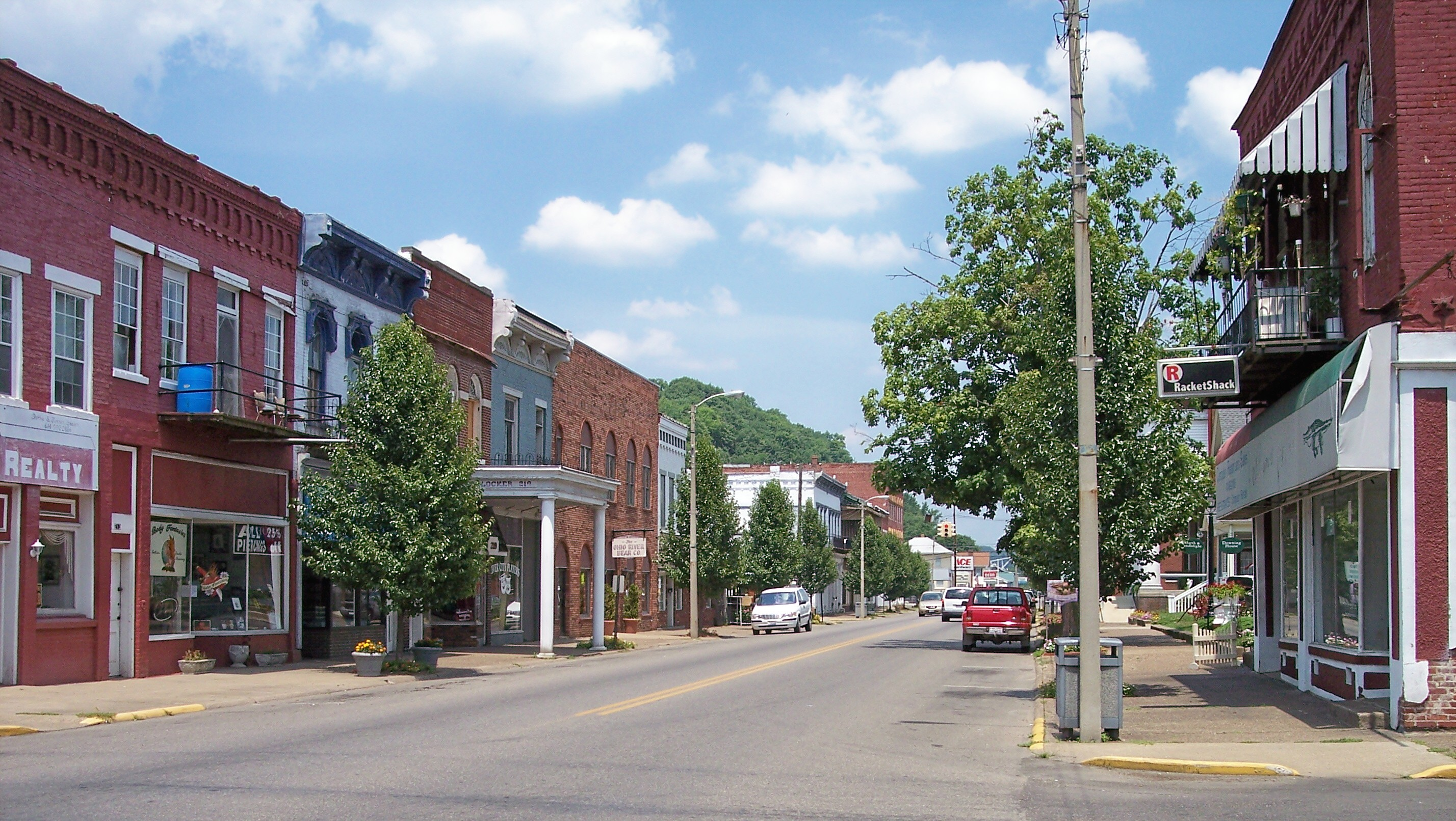 North 2nd Avenue as viewed from Coal Street in downtown Middleport, Ohio.